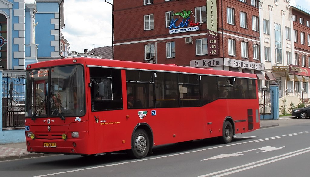 NefAZ 5299 bus in Kazan, Russia.